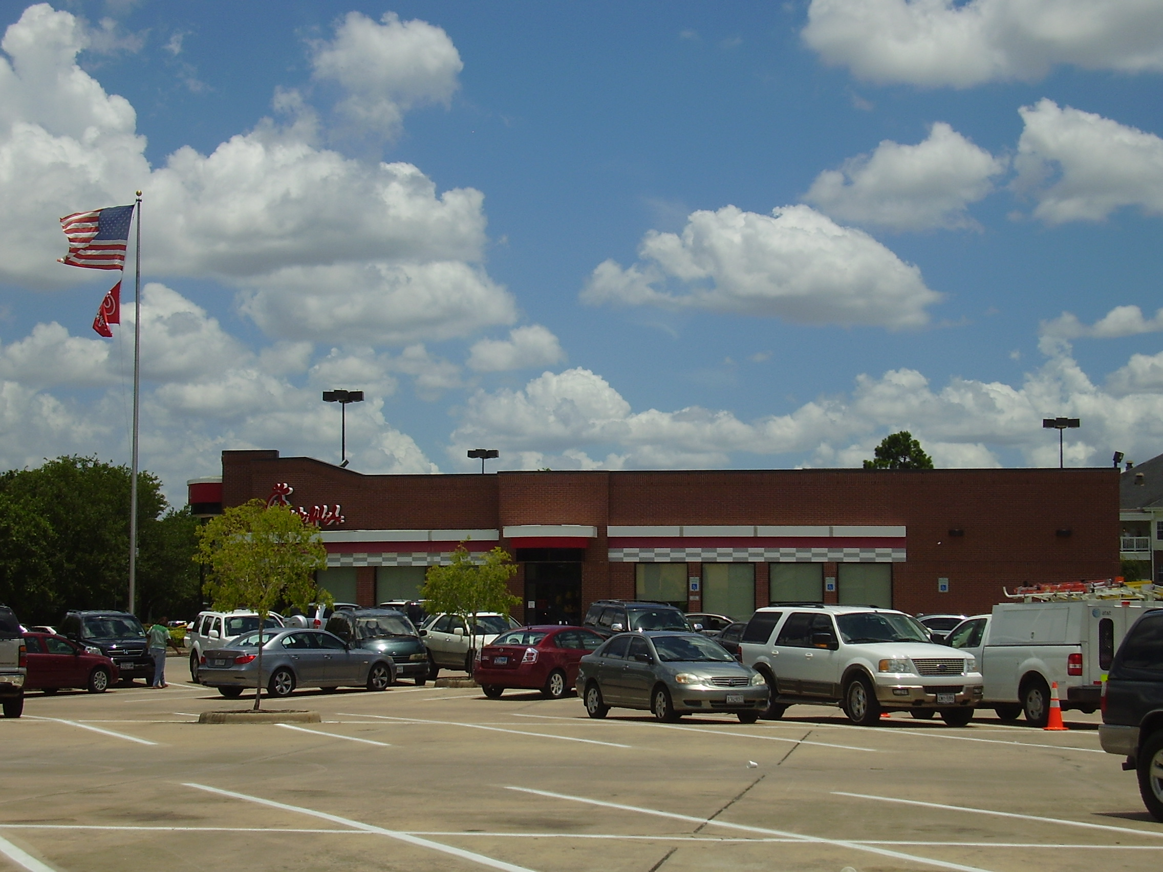 Chick-fil-A at Bellaire Blvd/ W Holcombe & Buffalo Speedway restaurant - 3101 West Holcombe Boulevard, Houston, TX